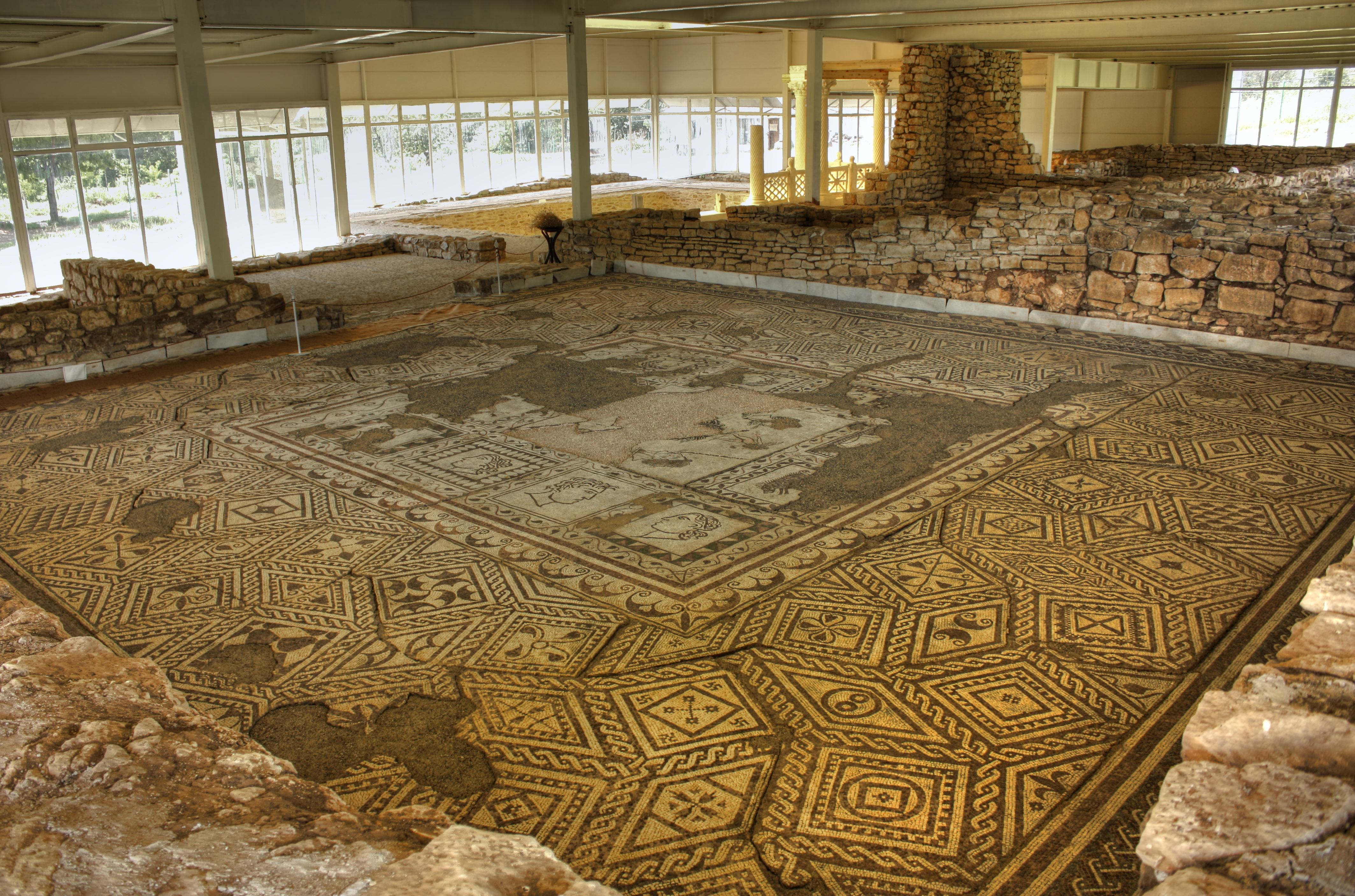 The most impressive findings at the ancient Roman Villa "Armira" that was discovered in 1964 near the Bulgarian city Ivailovgrad was the mosiacs with thich the floors were decorated...